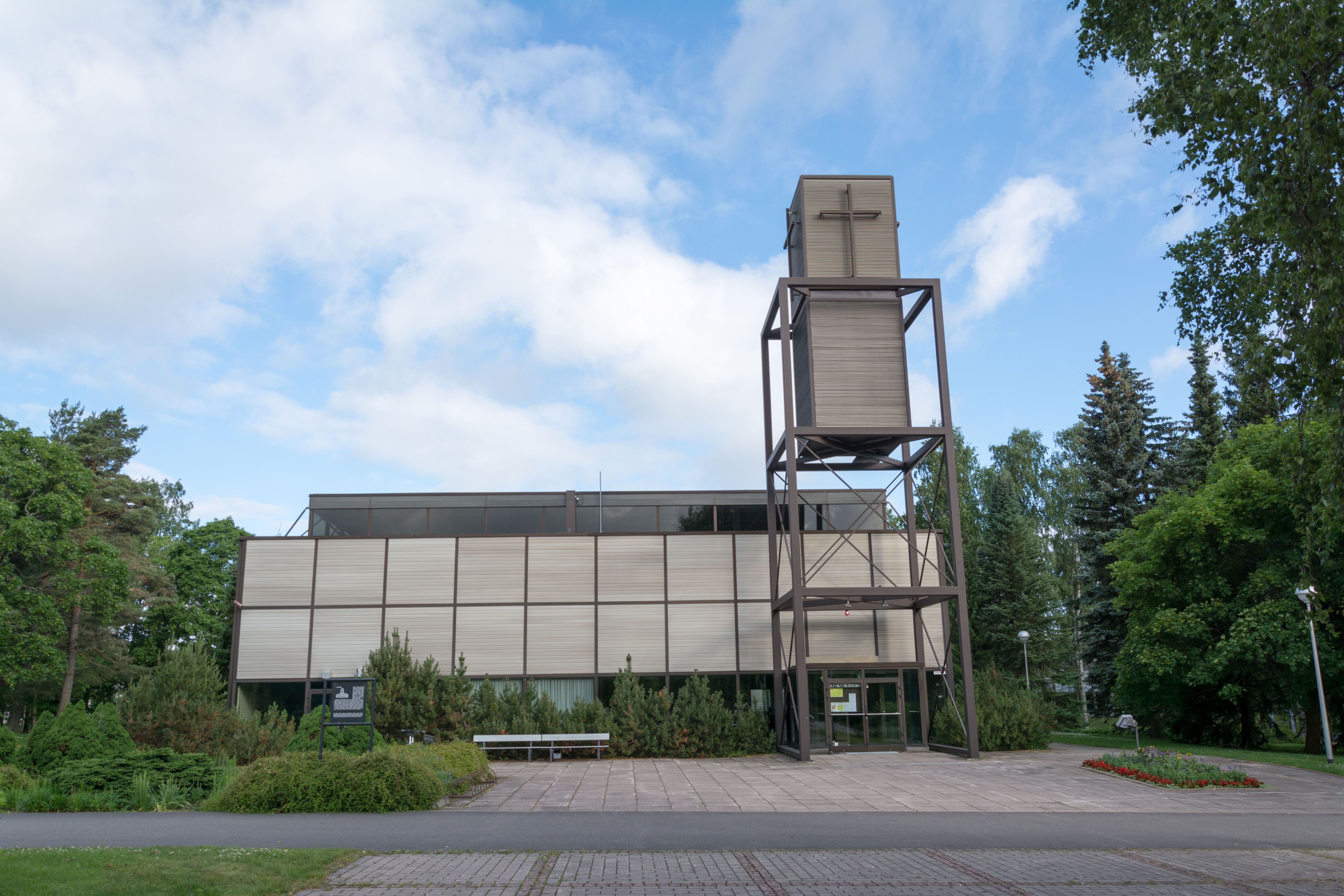 Kouvola Central Church in Kouvola, Finland, was designed by Jaakko ja Kaarina Laapotti, and completed in 1977.